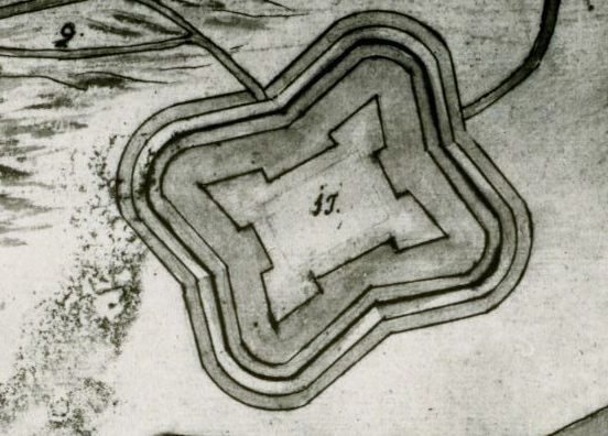 Spinola- of Grote Schans near Breda, part of bigger map